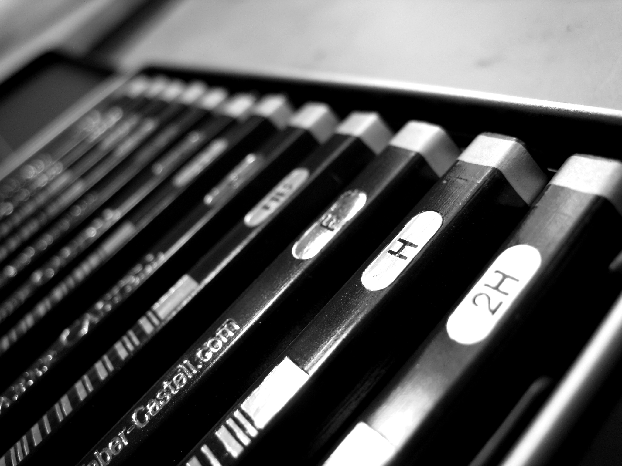 A pencil box